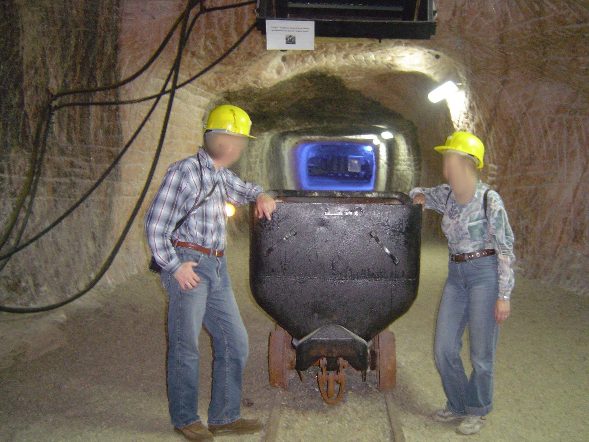 Cargo cart of railway in Salt mine Kłodawa, Poland